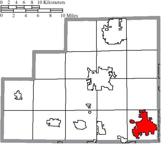 Map of the municipal and township boundaries of Medina County, Ohio, United States, as of the 2000 census, with the location of the city of Wadsworth highlighted. Township borders are shown only in unincorporated areas in order to differentiate incorporated and unincorporated areas more clearly.